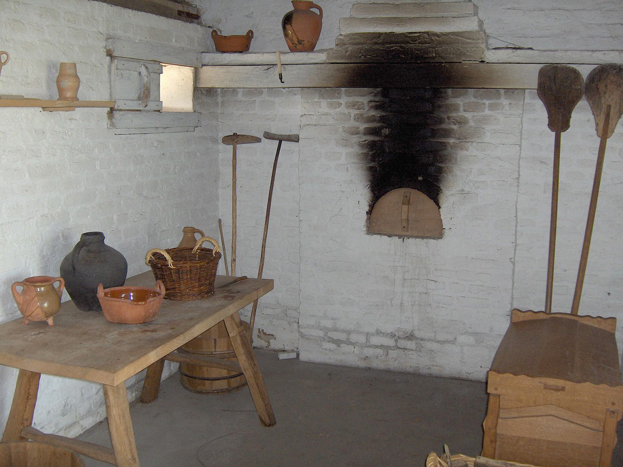 bakery, also used for baking hardtacks or sea biscuits; c. 1465; at the archeological site of Walraversijde, near Oostende, Belgium